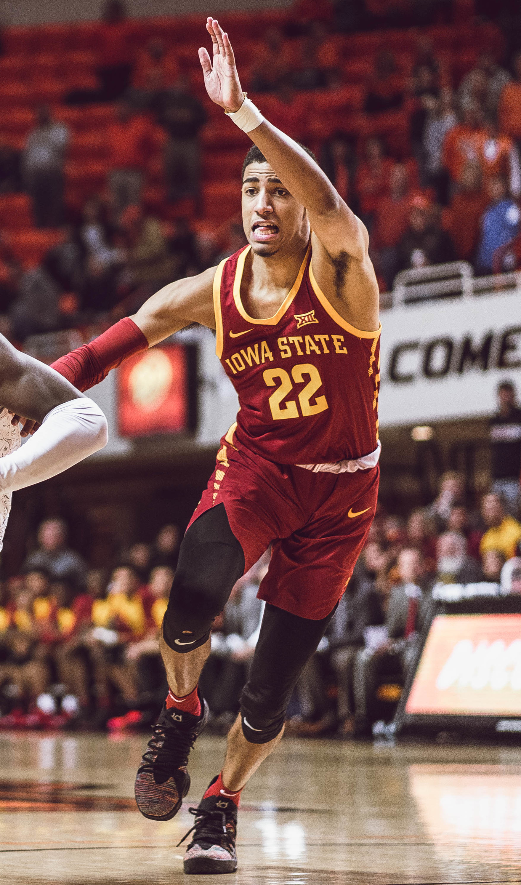 Oklahoma State Cowboys vs Iowa State Cyclones Men's Basketball Game, Wednesday, January 2, 2019, Gallagher-Iba Arena, Stillwater, OK. Courtney Bay/OSU Athletics